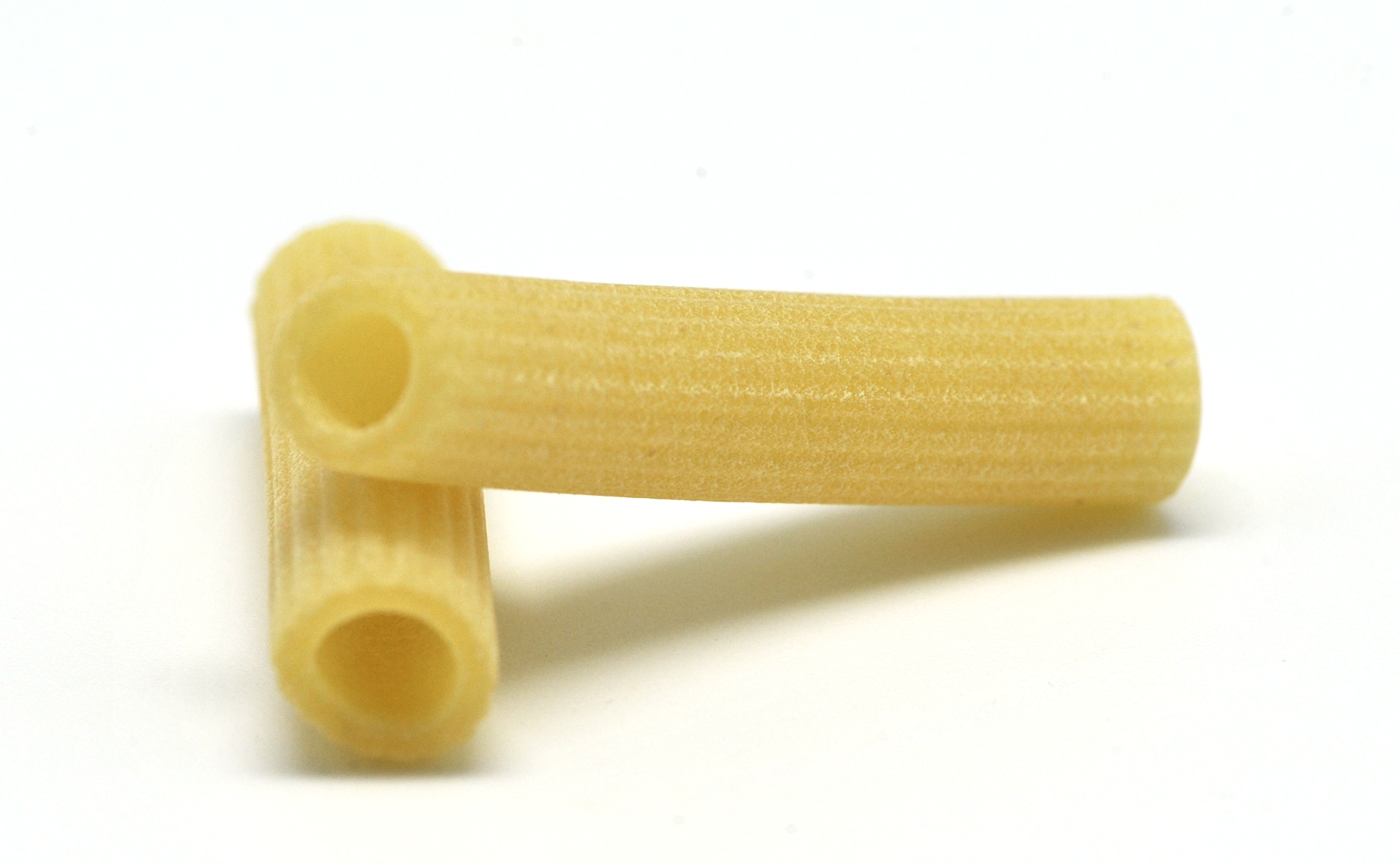 Closeup image on sedani rigati pasta